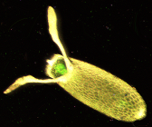 Drosophila melanogaster egg. Source: my personal image. The copyright to this image is retained by John Schmidt (JWSchmidt). Permission is granted to copy, distribute and/or modify this image under the terms of the Wikipedia GFDL, as indicated in the fine print at the bottom of this page. If you do not want to use this image under the terms of the GFDL, you can alternatively use it under the terms of the cc-by-nc-sa license. 14:27, 2 April 2004 JWSchmidt 168x140 (41093 bytes) ( Drosophila melanogaster egg.)